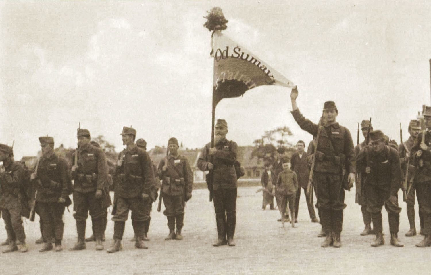 Flag of the Czechoslovak Home Army in Bratislava.